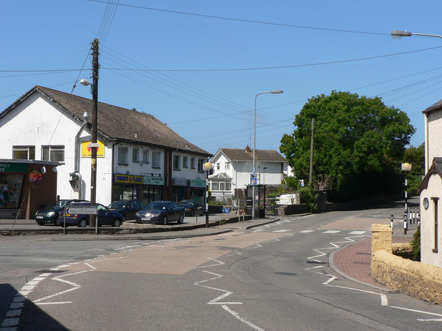 Boverton Village Post Office and Shops